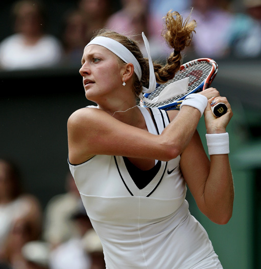 Czech tennis player Petra Kvitova in the final match at the 2011 Wimbledon against Maria Sharapova